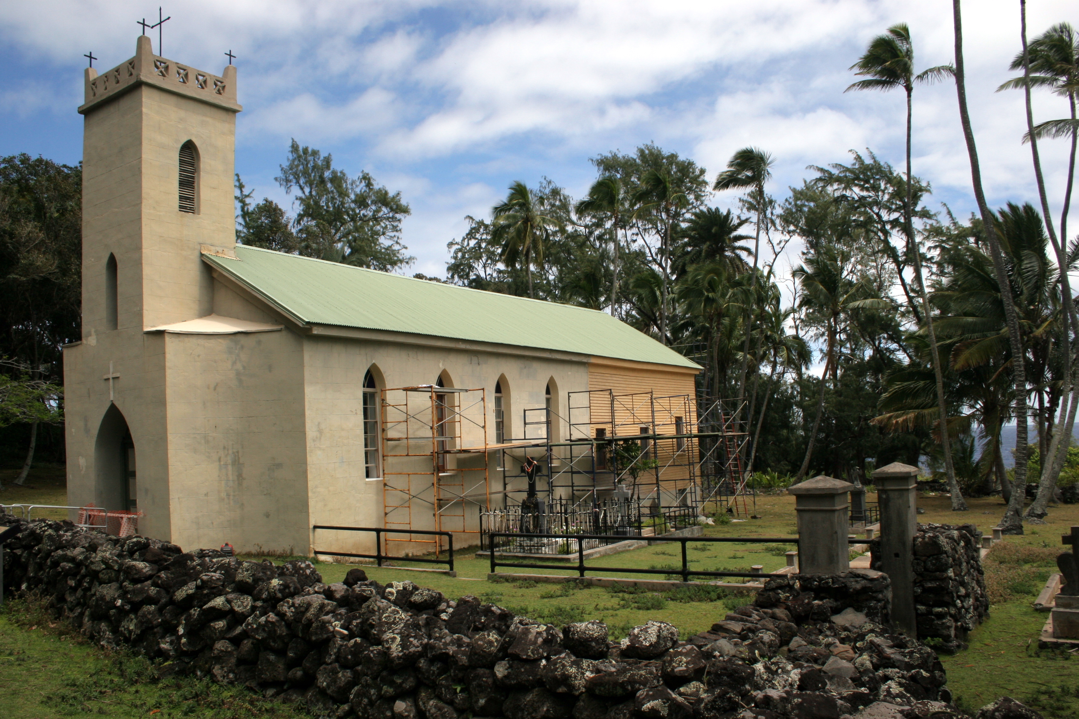 Father Damien's original church being restored.